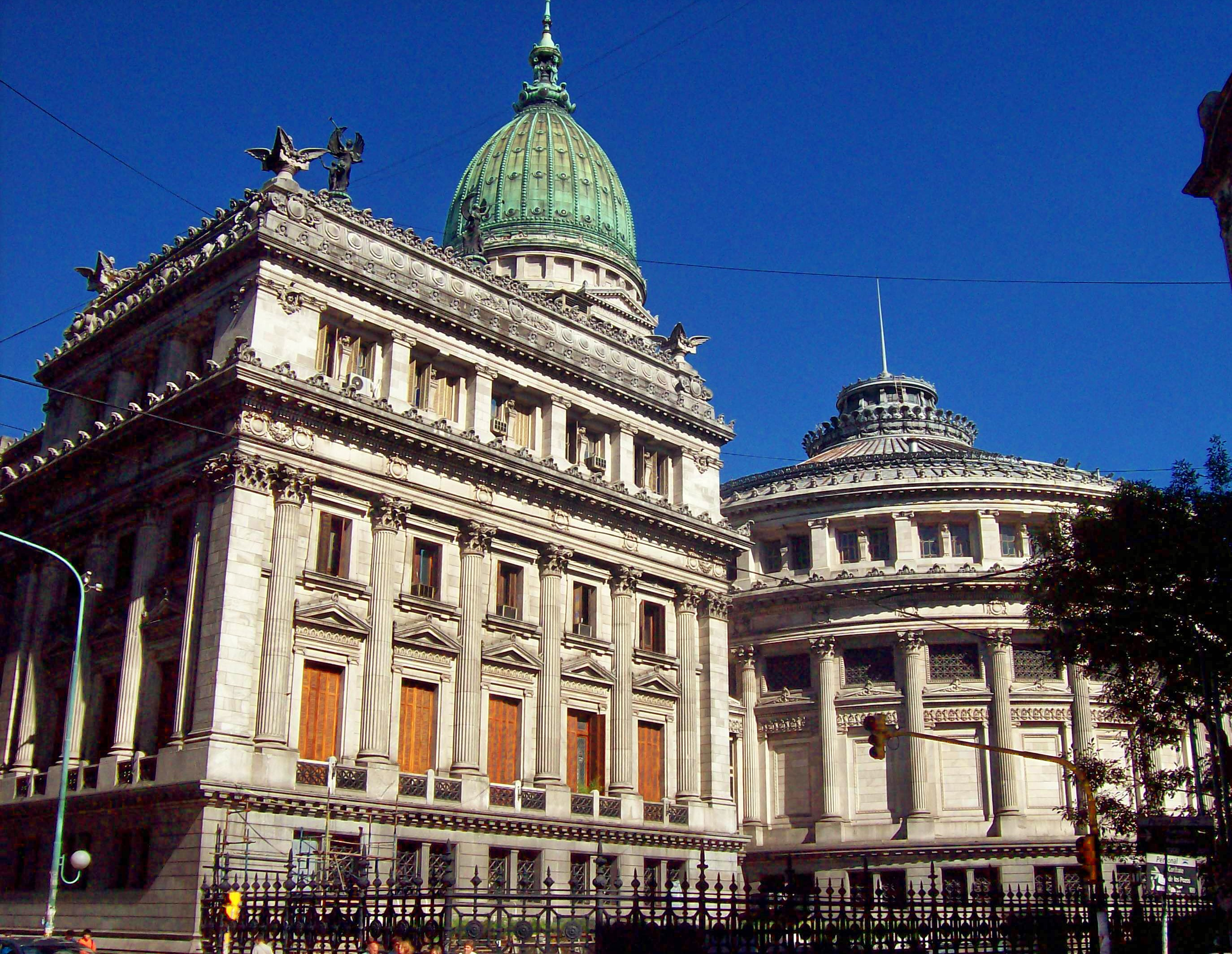 Argentine National Congress